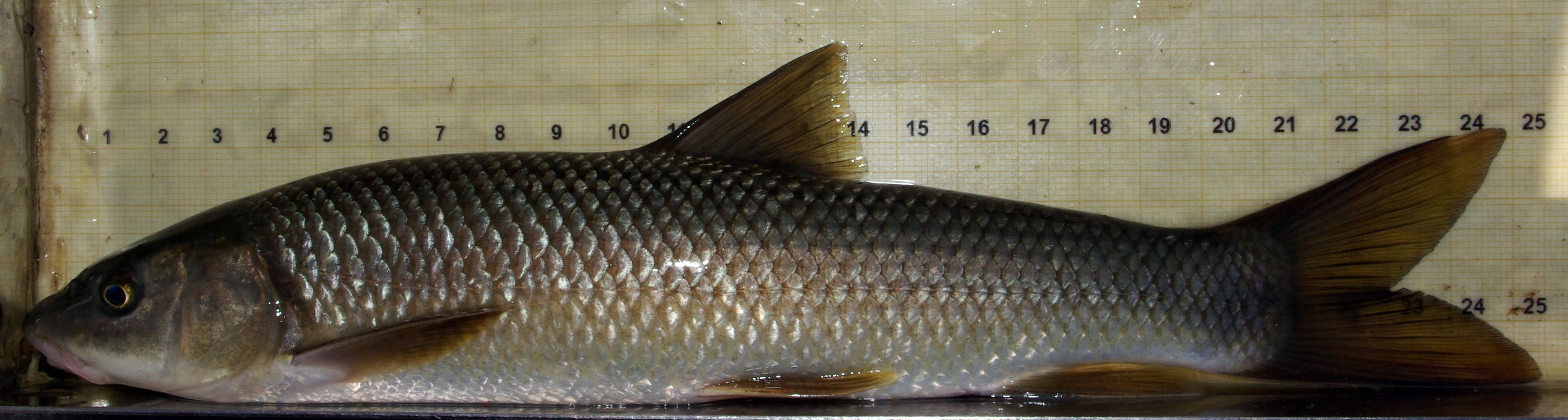 Iberian Barbel Barbus bocagei. River Douro, near Soria, Soria (Spain)